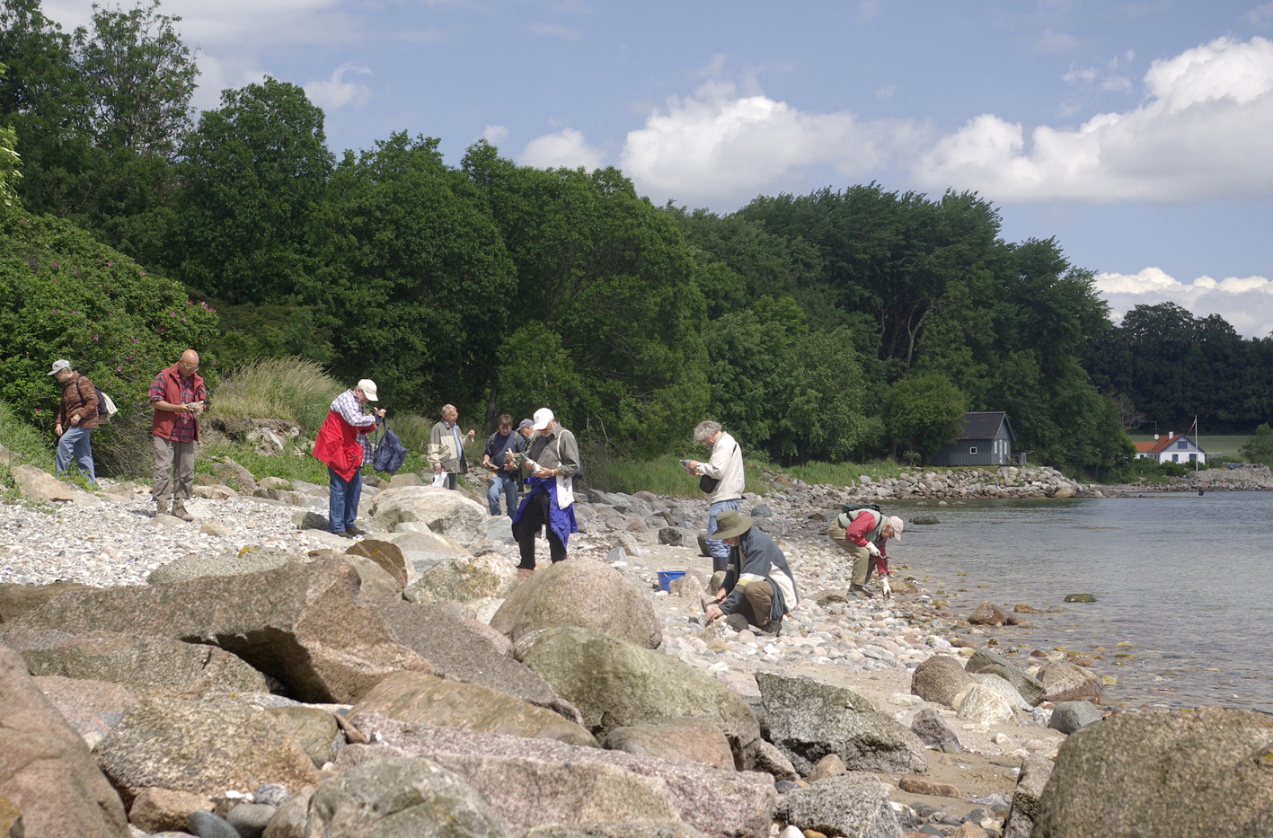 A fossil hunt. Cliffs of the Flensburg Firth in Denmark